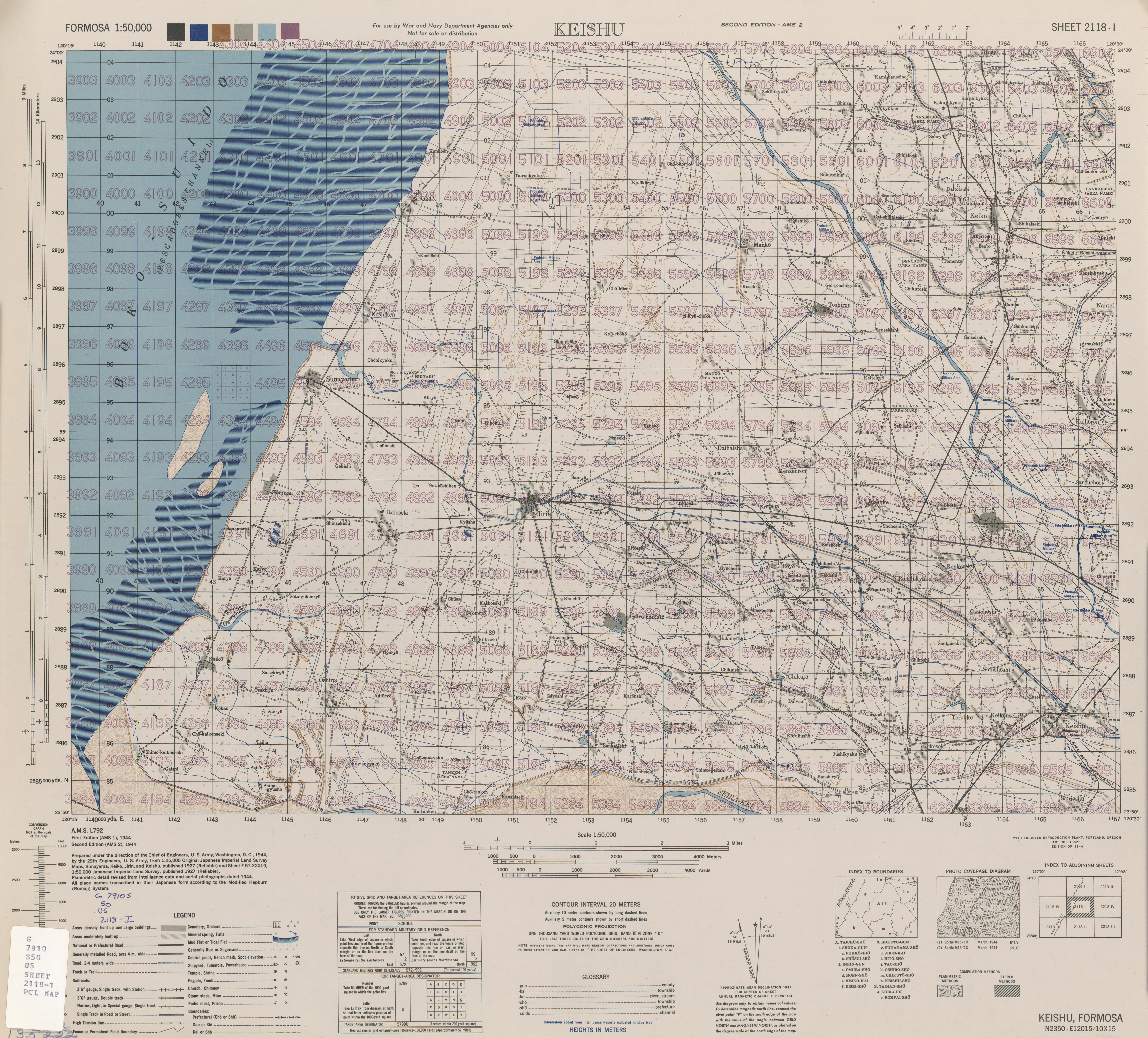 Map of Formosa (Taiwan) 1:50,000 AMS Series L792